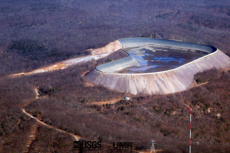 Photo from the site of the Taum Sauk Dam Failure from the USGS Mid-Continent Geographic Science Center[1]